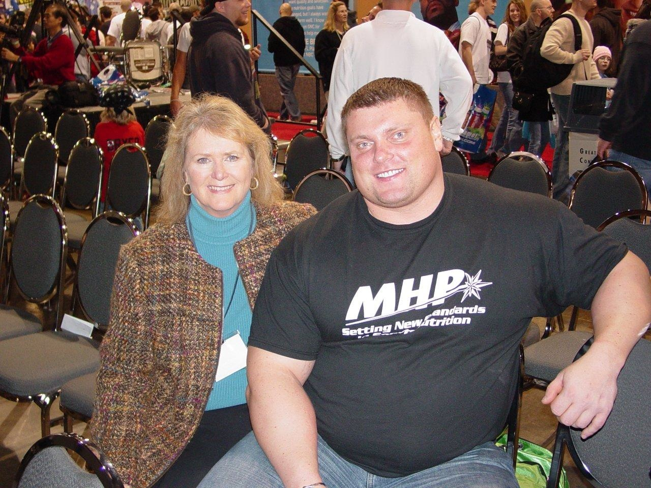 Dr. Jan Todd with Zydrunas Savickas, the winner of the world's strongest man contest.